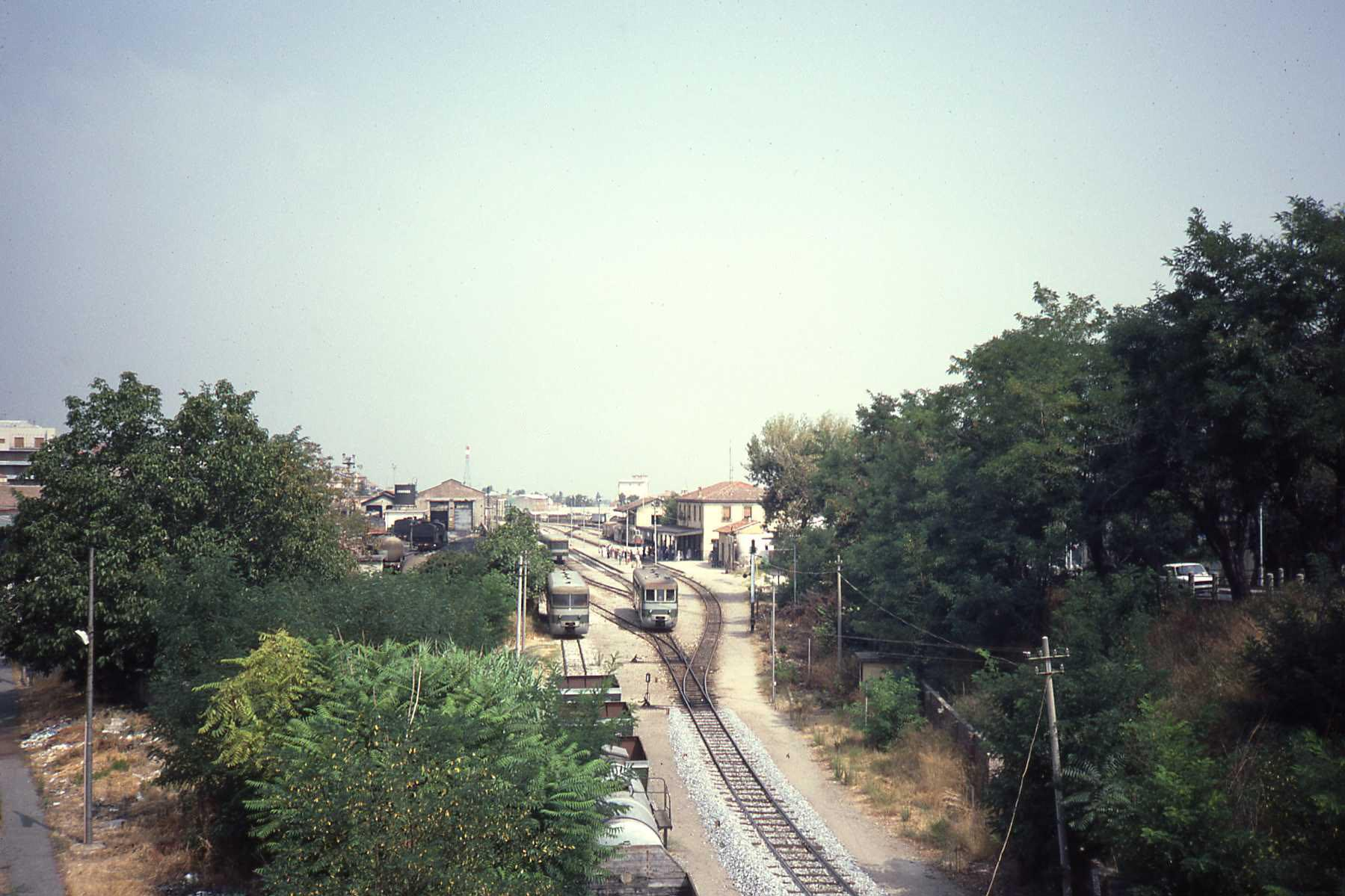 Overview of the FCL Cosenza station. On the left the steamlocs for the line to Paola.